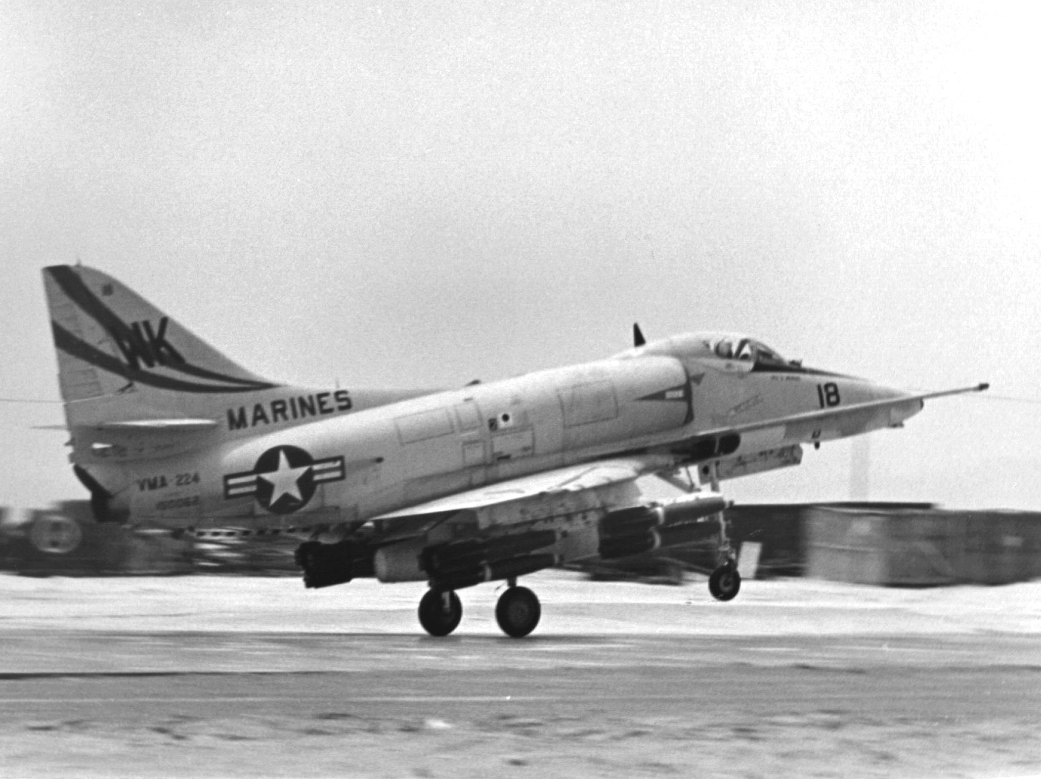 A U.S. Marine Corps Douglas A-4E Skyhawk (BuNo 1500629) of Marine Attack Squadron 224 (VMA-224) "Bengals" taking off on a combat mission from Chu Lai, Vietnam, on 24 September 1966. The A-4E 150062 was later shot down by small arms fire over South Vietnam on 7 June 1970 while in service with VMA-311. The pilot ejected and was rescued.